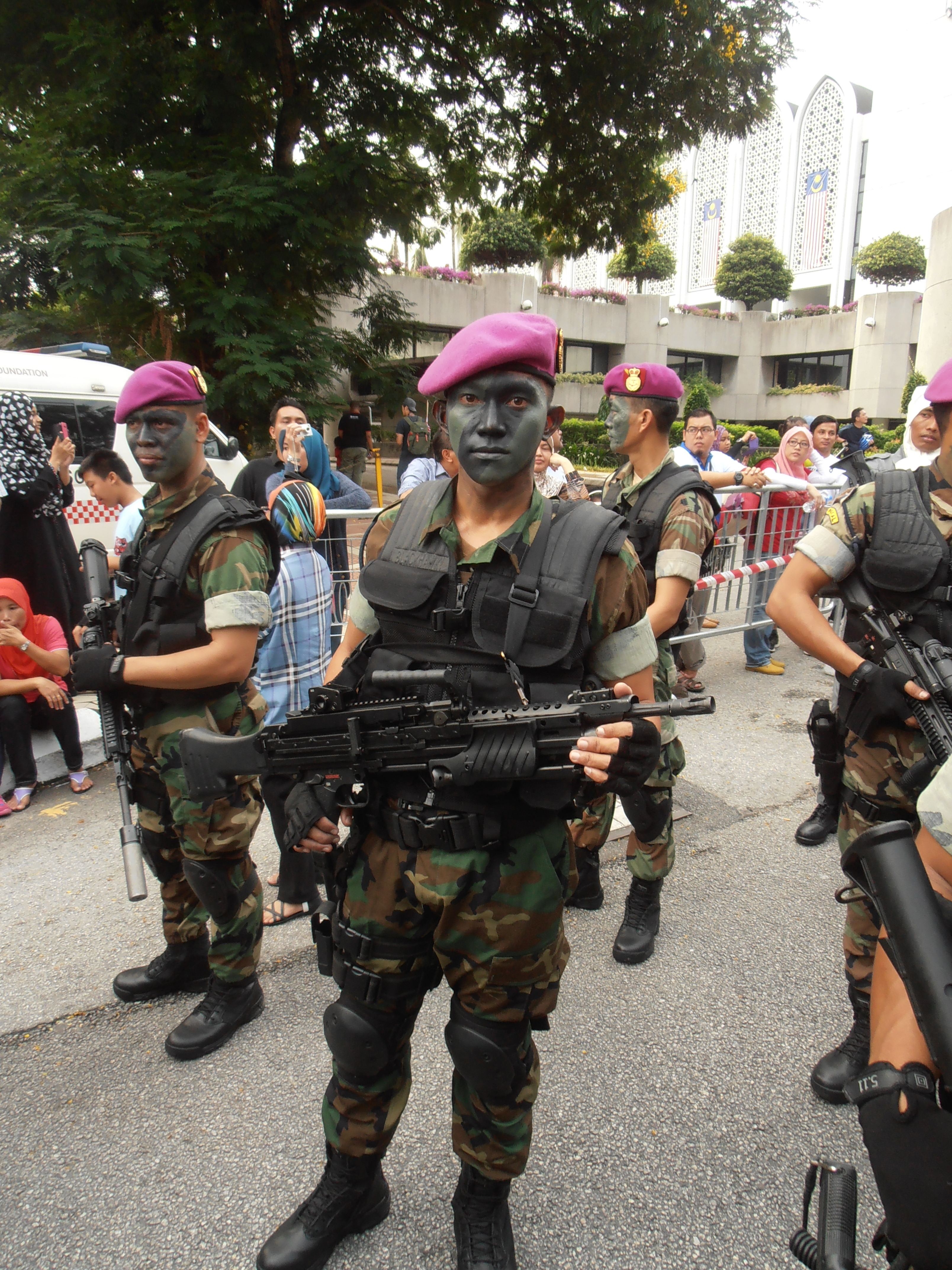 The machinegunner of PASKAL with his HK MG4-KE light machinegun during the 57th National Day Parade of Malaysia at Merdeka Square, Kuala Lumpur. The MG4 purchased by PASKAL to replacing the Belgian-made FN Minimi as the Special Purpose Weapon.